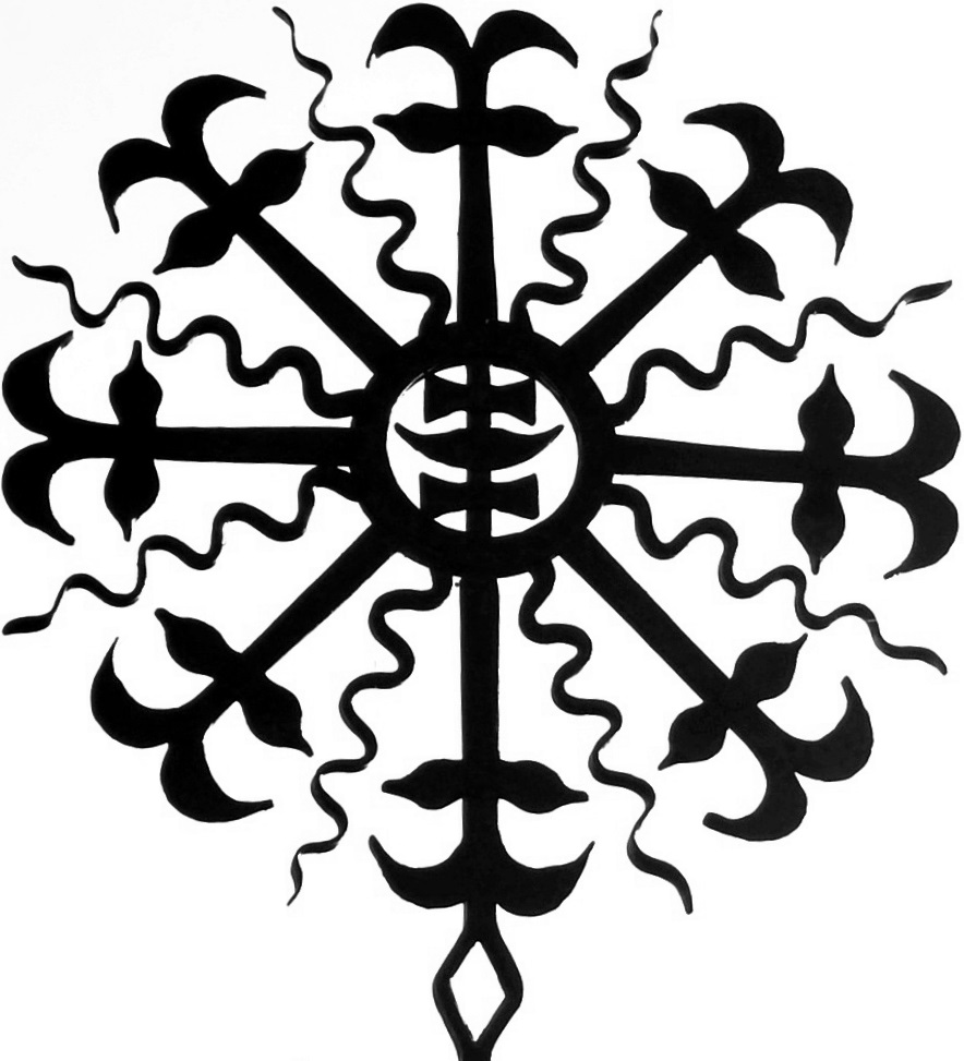 Pagan Lithuanian Baltic sun cross. Found on the wooden monument in Angiriai, Kėdainiai district.